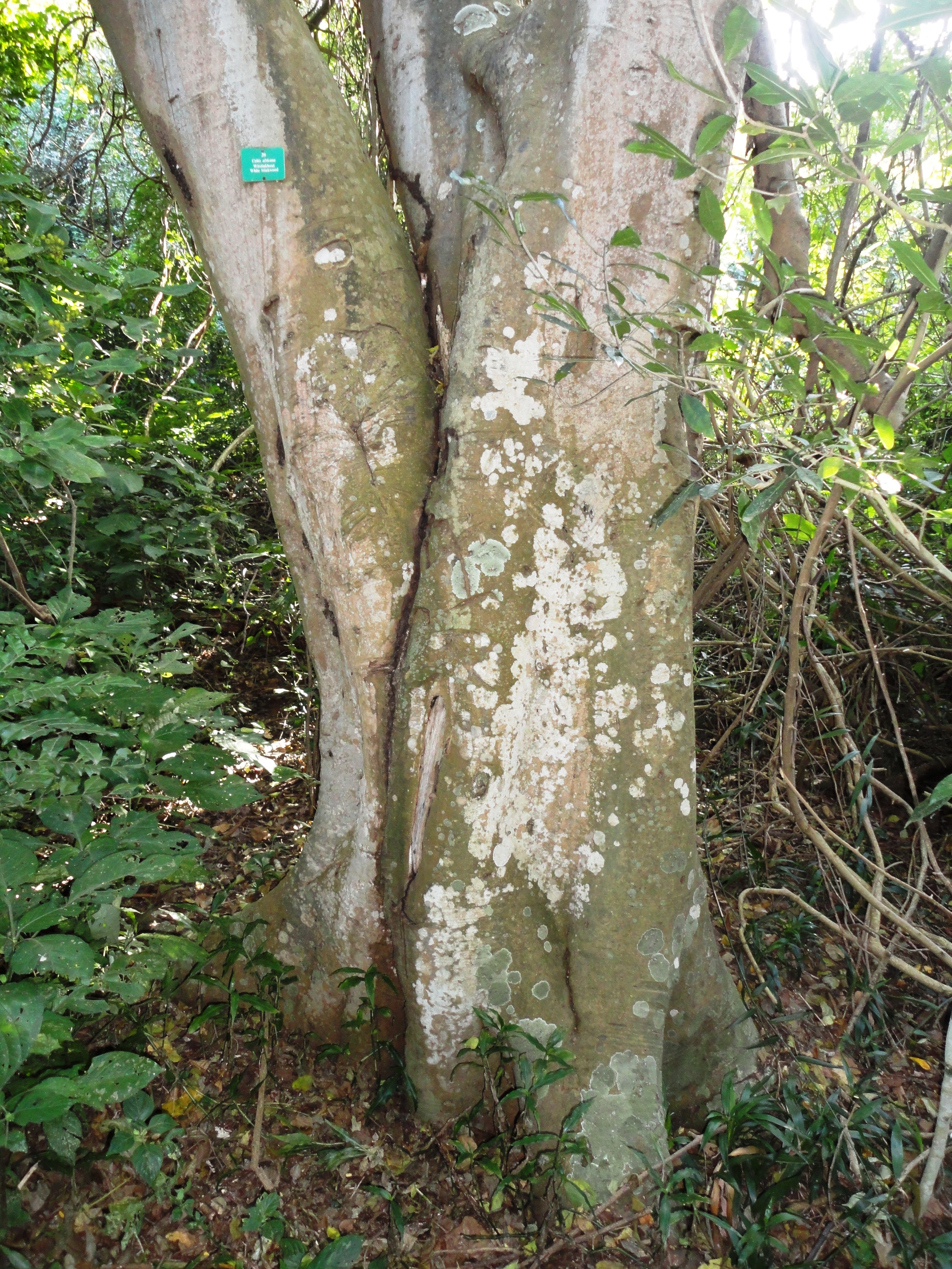 Lower trunk of a White Stinkwood in Burman Bush Nature Reserve, Durban